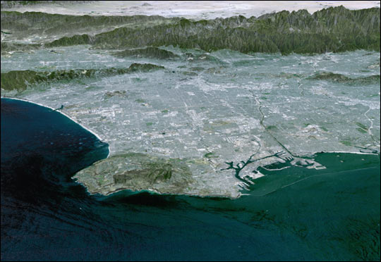 Los Angeles Basin